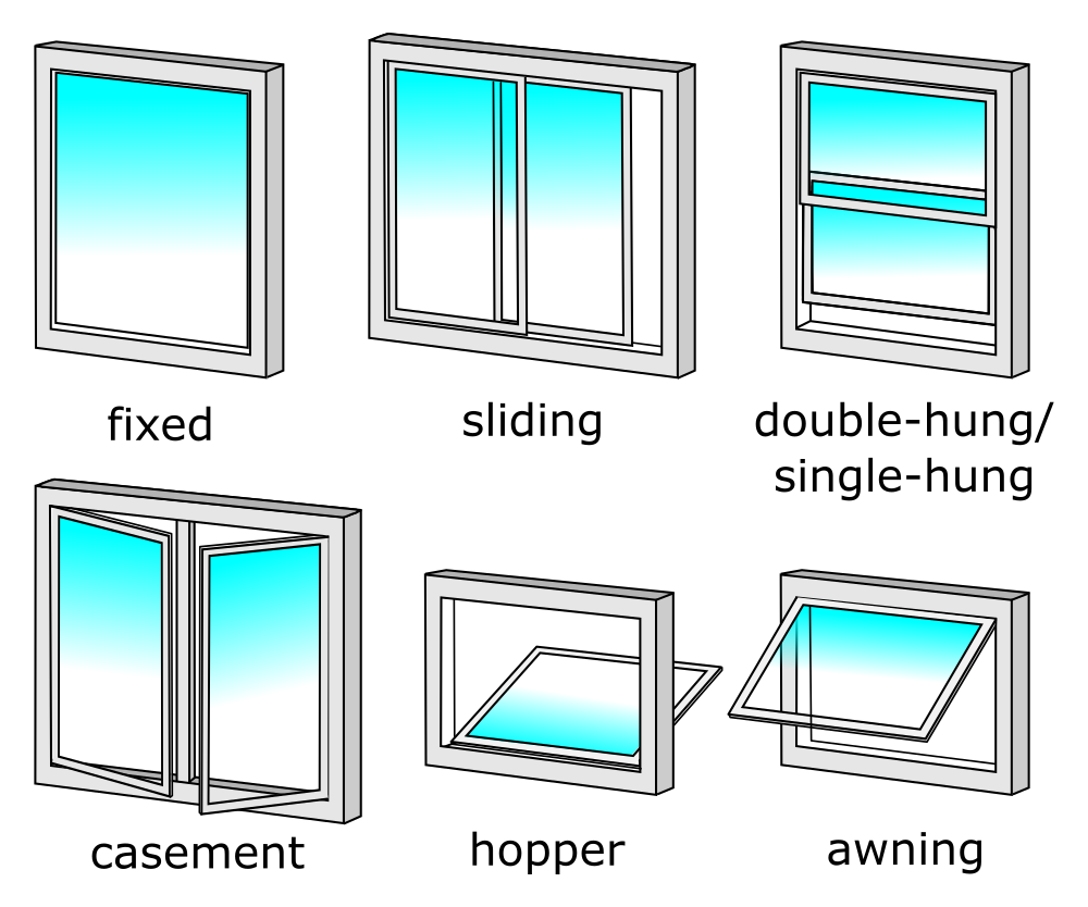 the most common types of windows in the U. S.